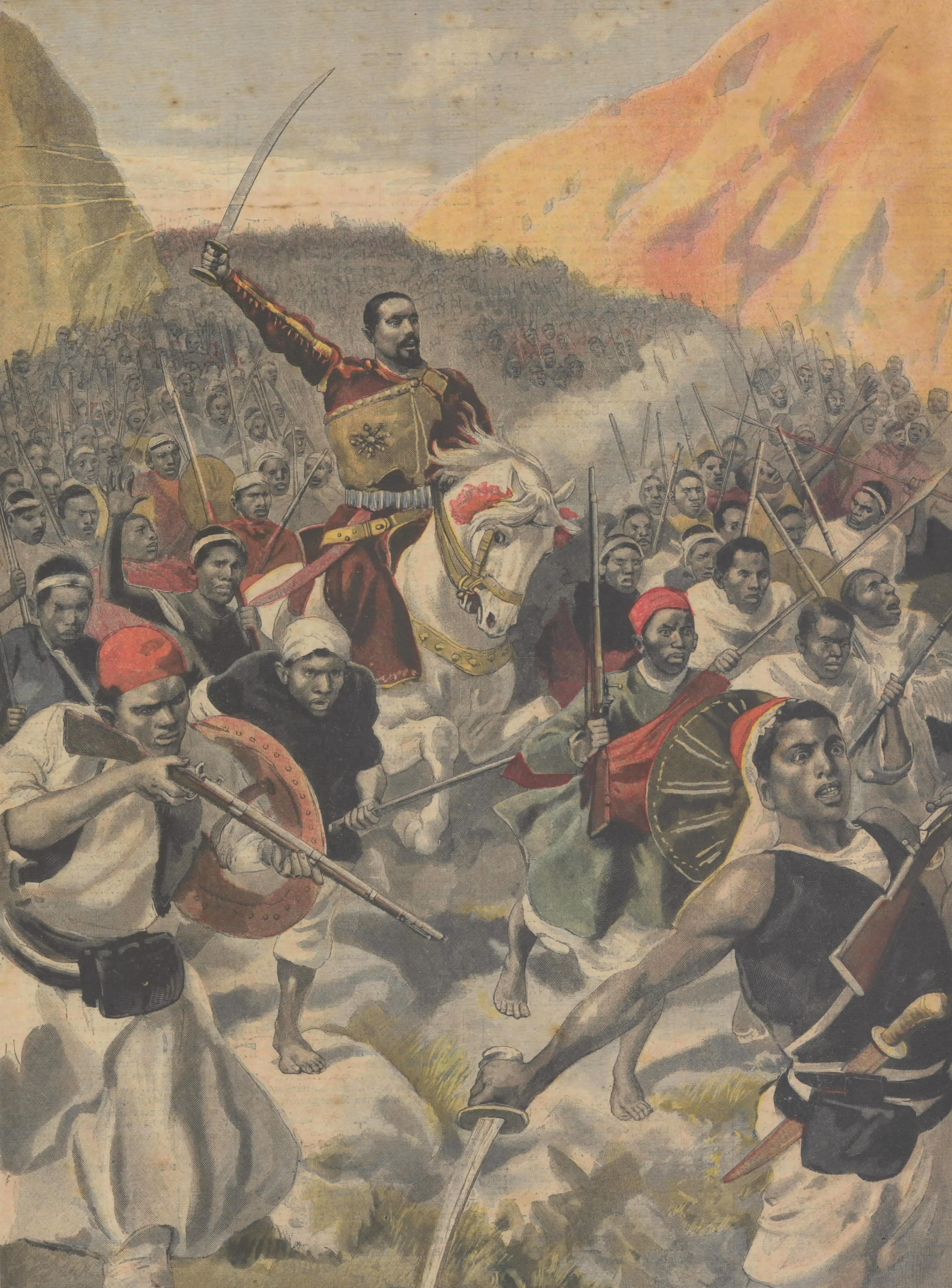 Page from old french newspaper "Le Petit Journal" depicting Ras Mekonnen at the battle of Amba Alage - Detail